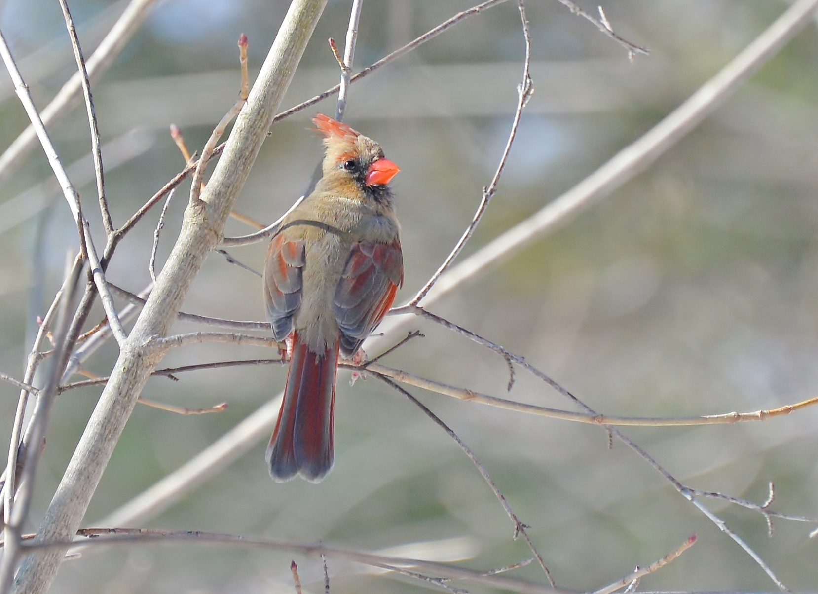 Female Northern cardinal (Cardinalis cardinalis) in James Gardens, Toronto, Canada.